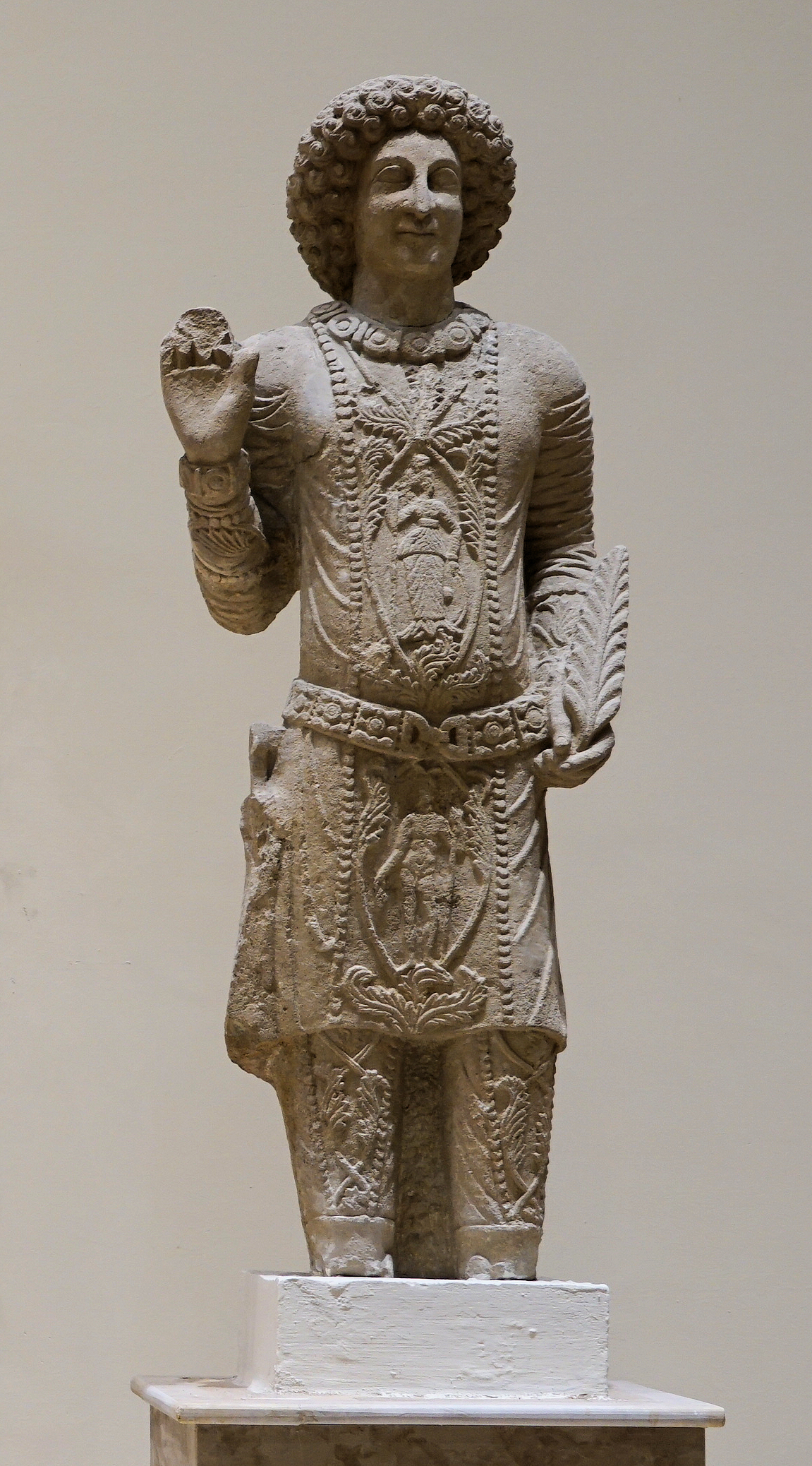 Prince Absadmiya son of Sanatruq I and future king